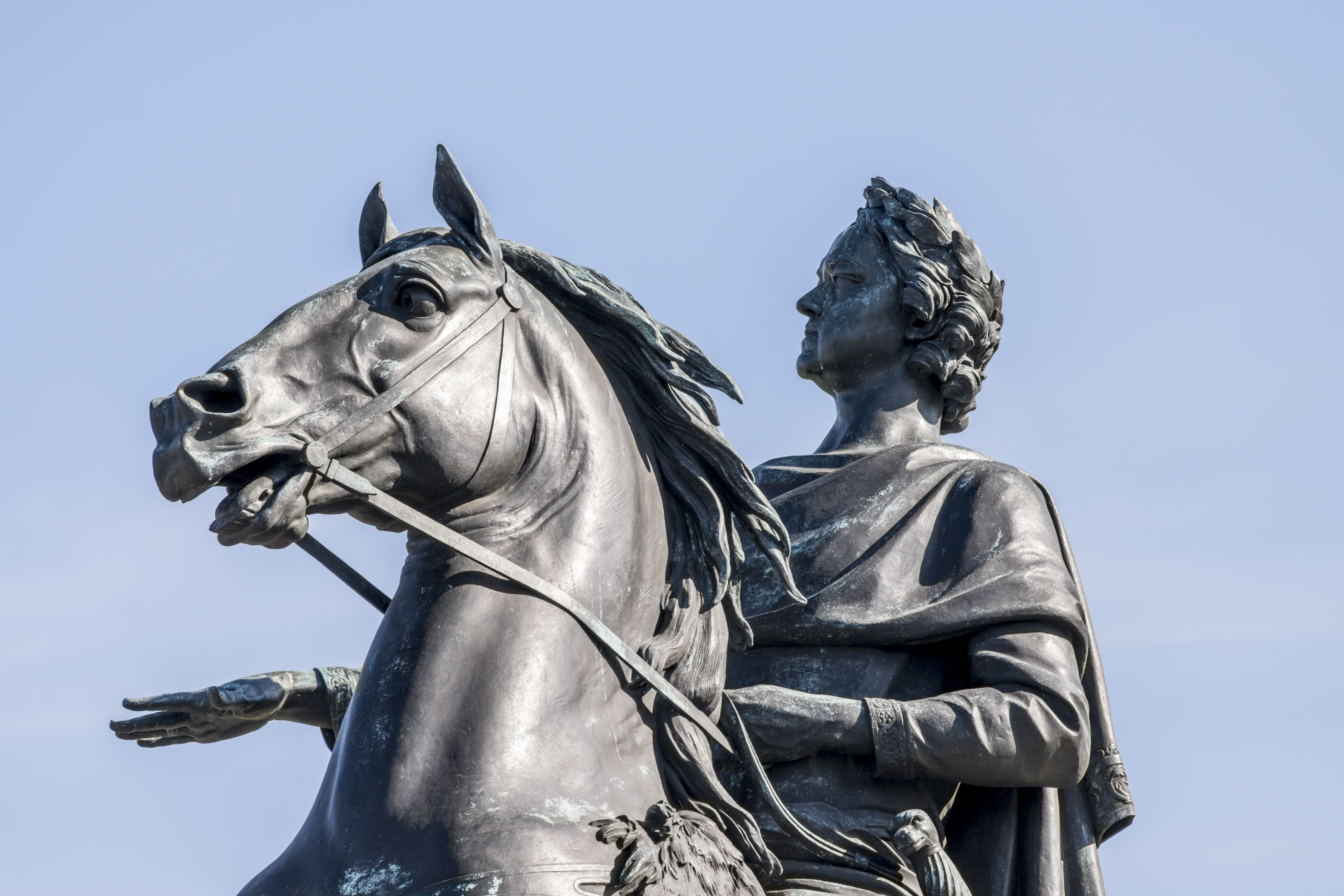 The Bronze Horseman at Senatskaya Square in Saint Petersburg